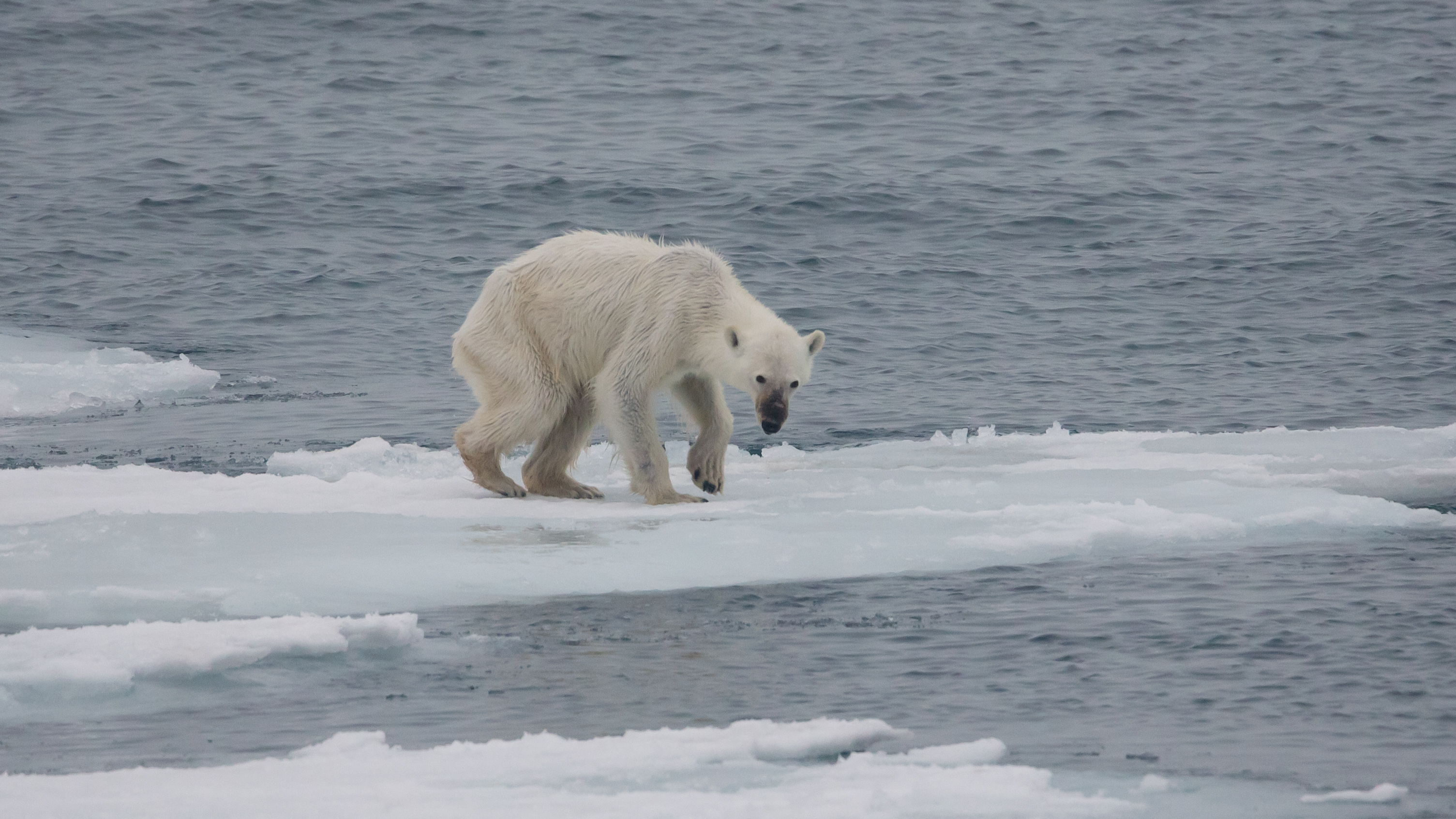 In summer, some polar bears do not make the transition from their winter residence on the Svalbard islands to the dense drift ice and pack ice of the high arctic where they would find a plethora of prey. This is due to global climate change which causes the ice around the islands to melt much earlier than previously. The bears need to adapt from their proper food to a diet of detritus, small animals, bird eggs and carcasses of marine animals. Very often they suffer starvation and are doomed to die. The number of these starving animals is sadly increasing.